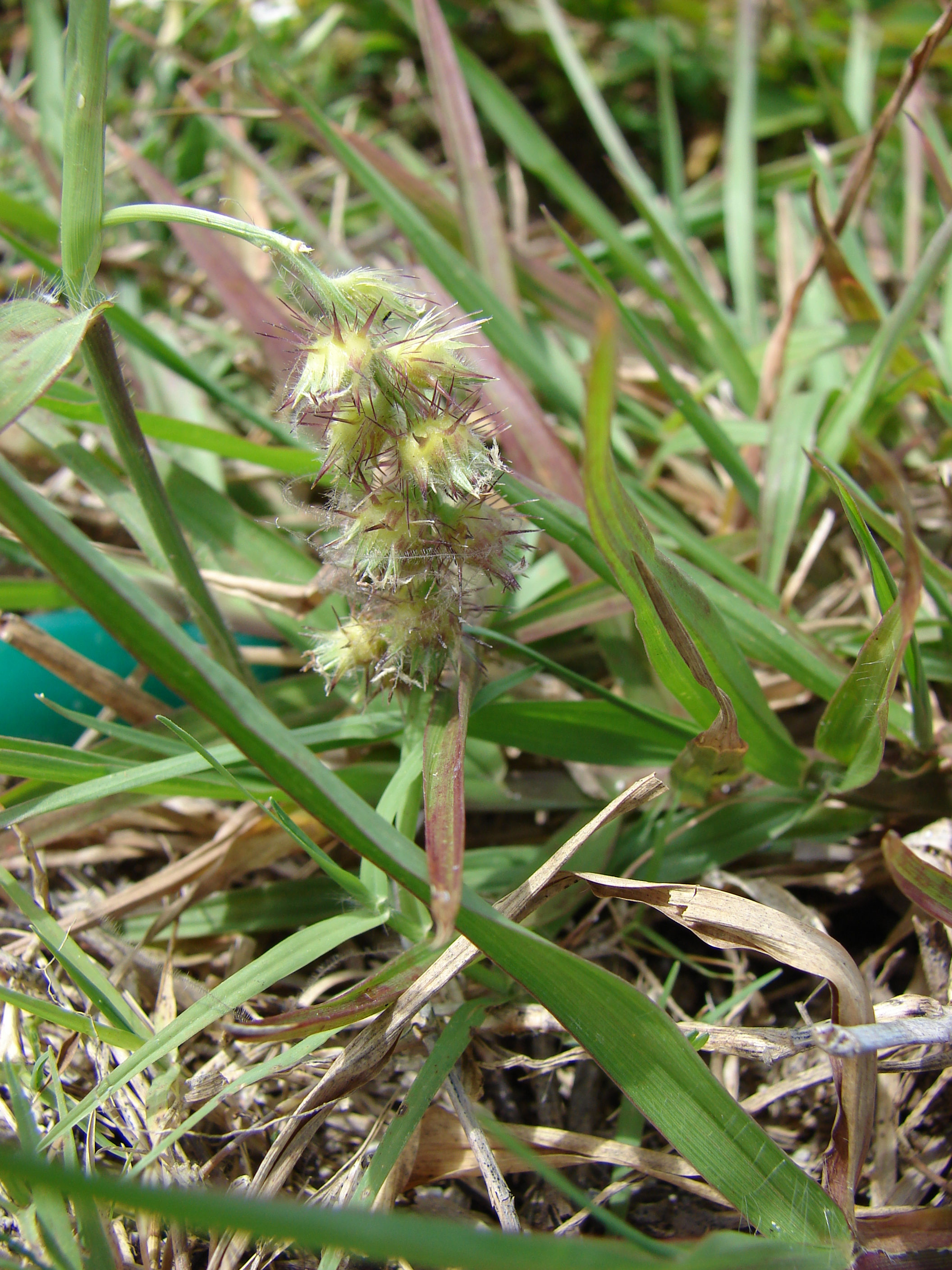 Cenchrus echinatus (seeding habit). Location: Midway Atoll, South Beach Sand Island